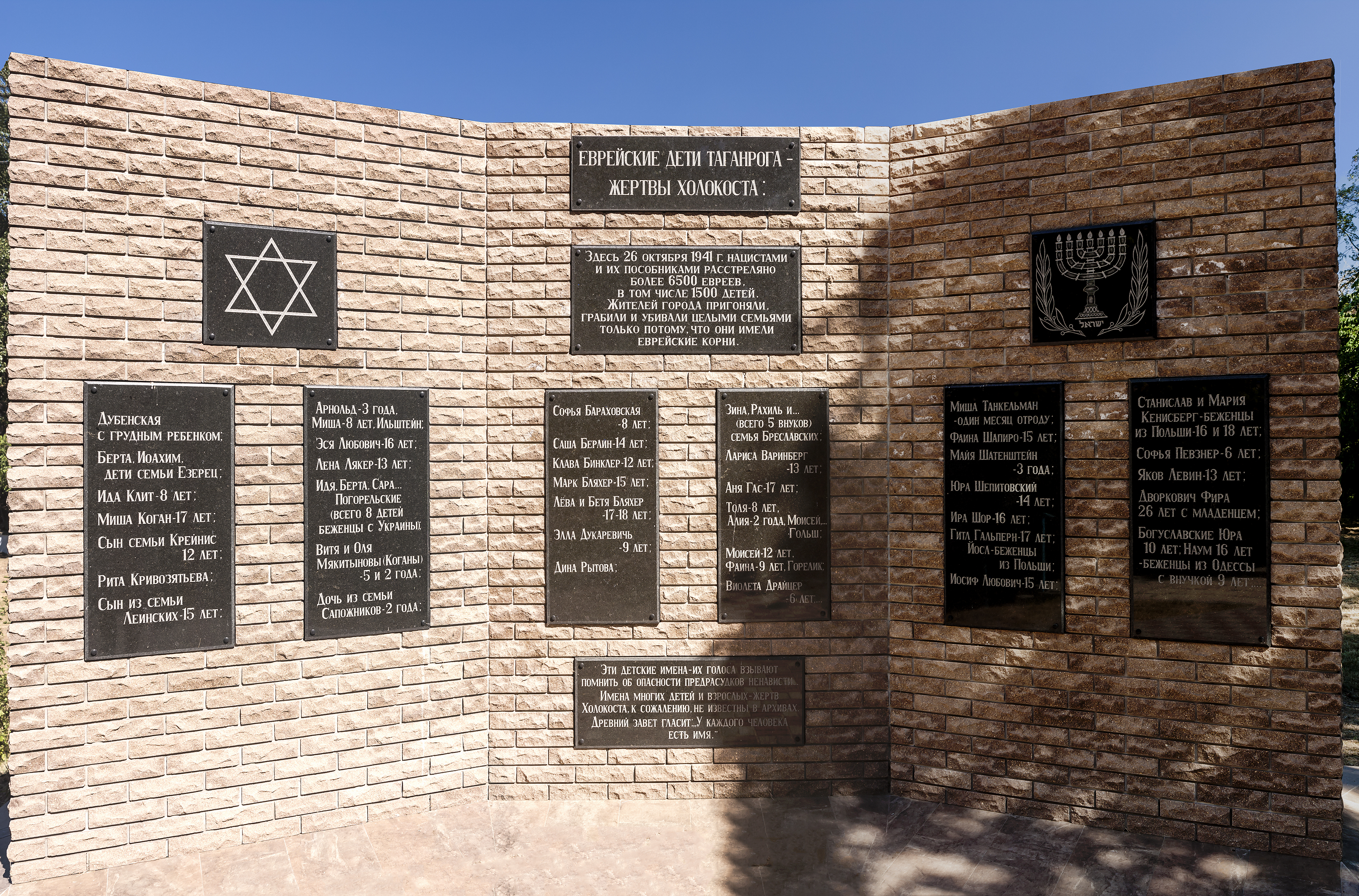 Monument to the Jews - victims of the fascist genocide. Petrushino village, Neklinovsky district, Rostov region